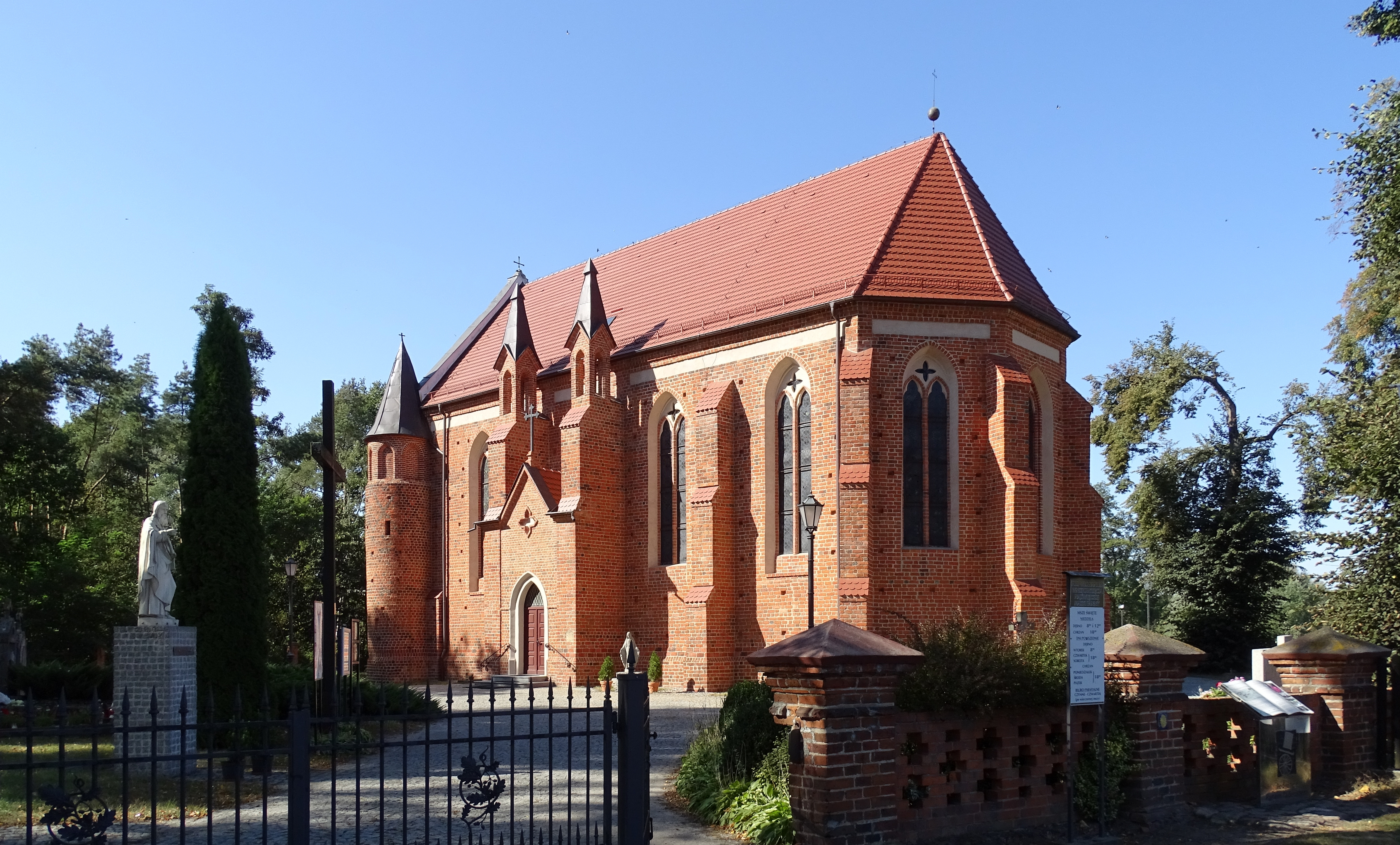 Dębno, Gmina Nowe Miasto nad Wartą, within Środa Wielkopolska County, Greater Poland, Poland. Virgin Mary parish church. Erected in 1447.